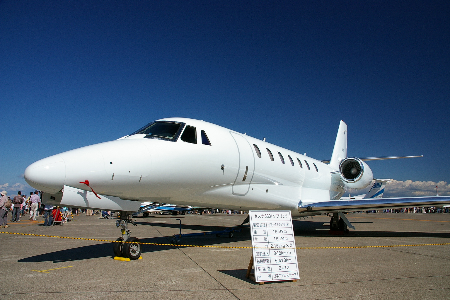 Cessna Citation Sovereign.